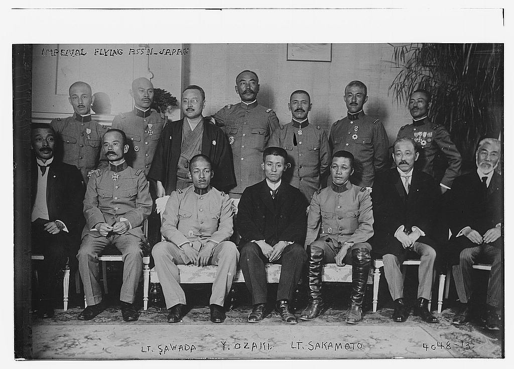 Bain News Service,, publisher. Imperial Flying Assn. - Japan - Lt. Cowada, Y. Ozakl, Lt. Sakamoto et al. [between ca. 1915 and ca. 1920] 1 negative : glass ; 5 x 7 in. or smaller. Notes: Title from unverified data provided by the Bain News Service on the negatives or caption cards. Forms part of: George Grantham Bain Collection (Library of Congress). Format: Glass negatives. Repository: Library of Congress, Prints and Photographs Division, Washington, D.C. 20540 USA, General information about the Bain Collection is available at Higher resolution image is available (Persistent URL): Call Number: LC-B2- 4048-13